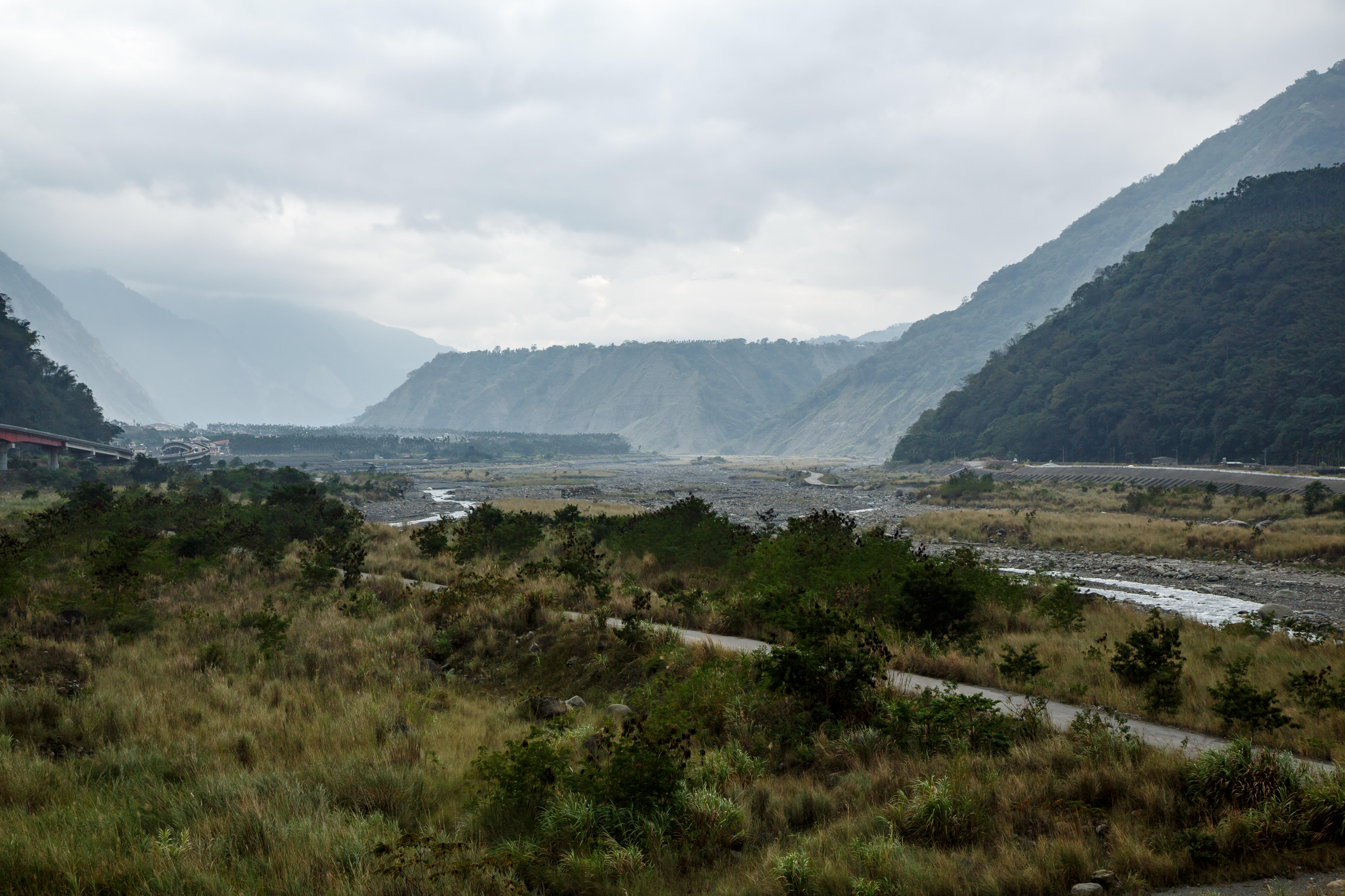 Xinyi, Nantou County, Taiwan: Chenyoulan River Valley, some 5 kilometres south of Xinyi